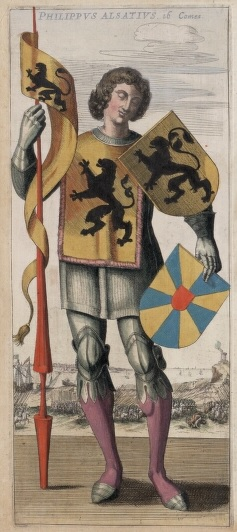 Filips van de Elzas - Afbeelding uit Flandria Illustrata (1641)